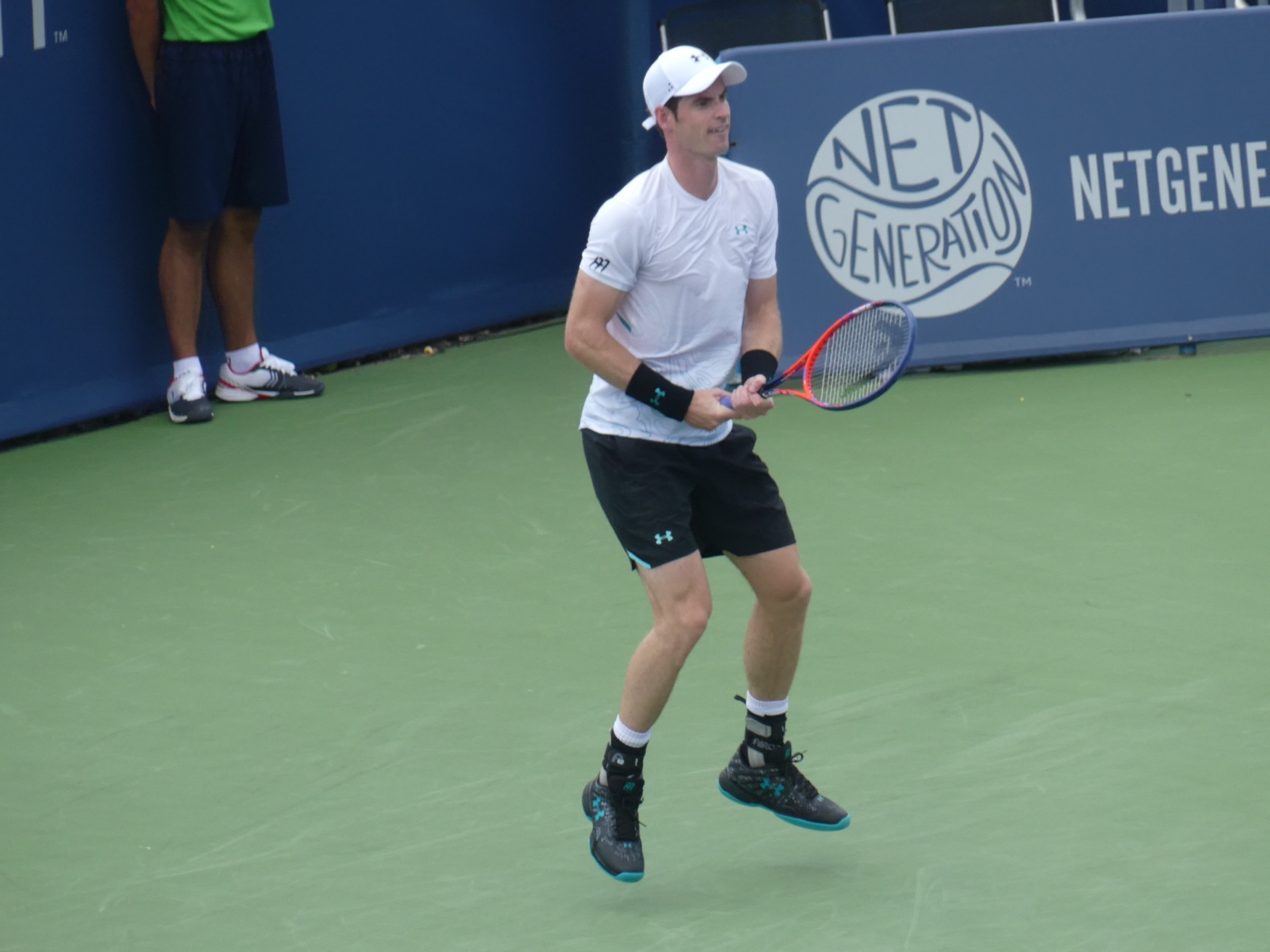 Andy Murray during his first round match of the 2018 Western and Southern Open against Lucas Pouille.